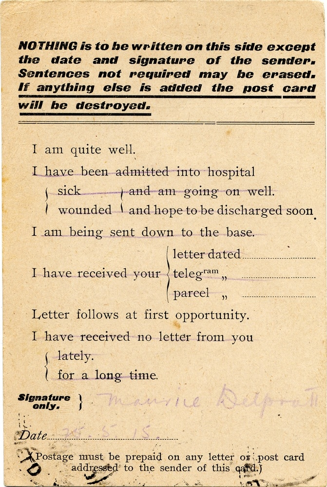 Field Service Postcard from Maurice George Delpratt to his father, J.H. Delpratt. Field Service Postcards were used during WWI as an early form of censorship. The message was compiled by crossing out pre-printed lines that were not relevant.